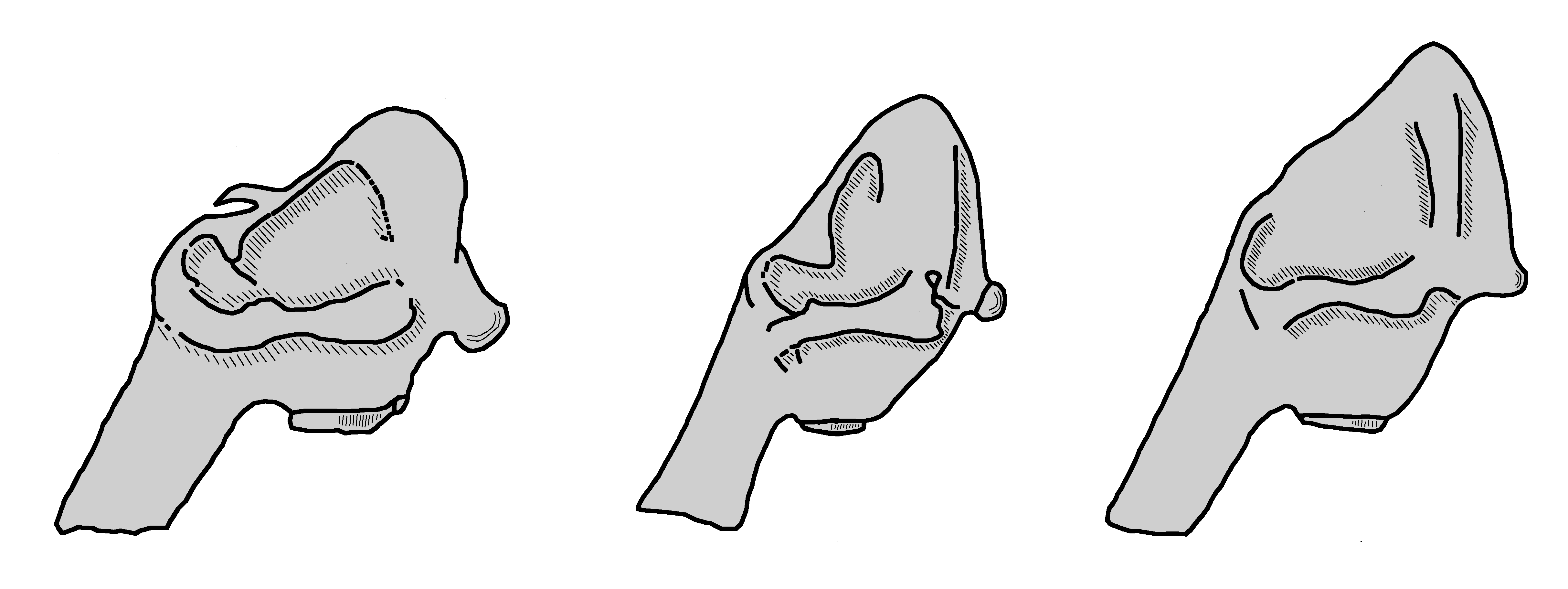 Skulls of mammoths. Left: Mammuthus meridionalis, Middle: Mammuthus trogontherii, right: Mammuthus primigenius.